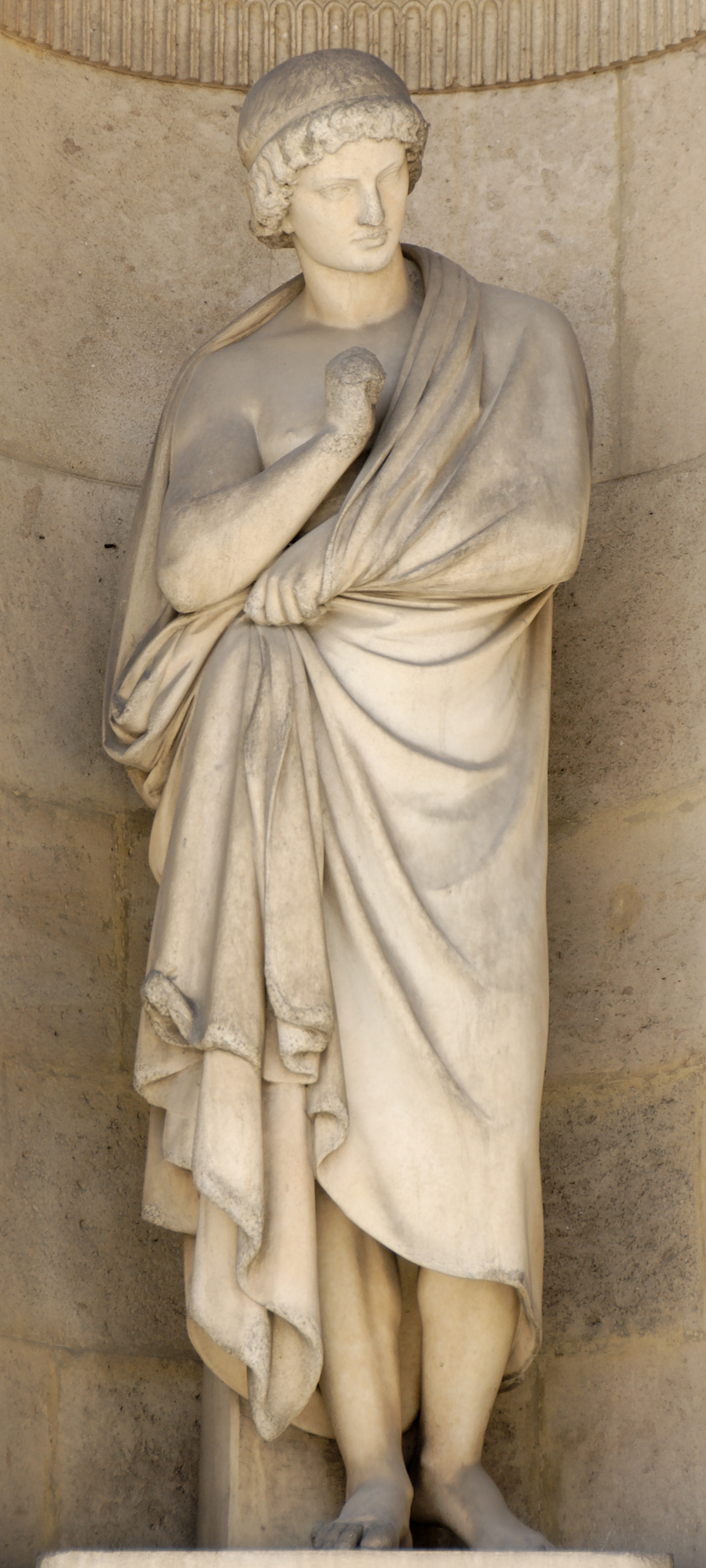 Aristarchus, begun by Georges Diebolt (1816-1861) in 1859, finished by Louis Merlet (1815-1883) in 1866. West façade of the Cour Carrée in the Louvre palace, Paris.